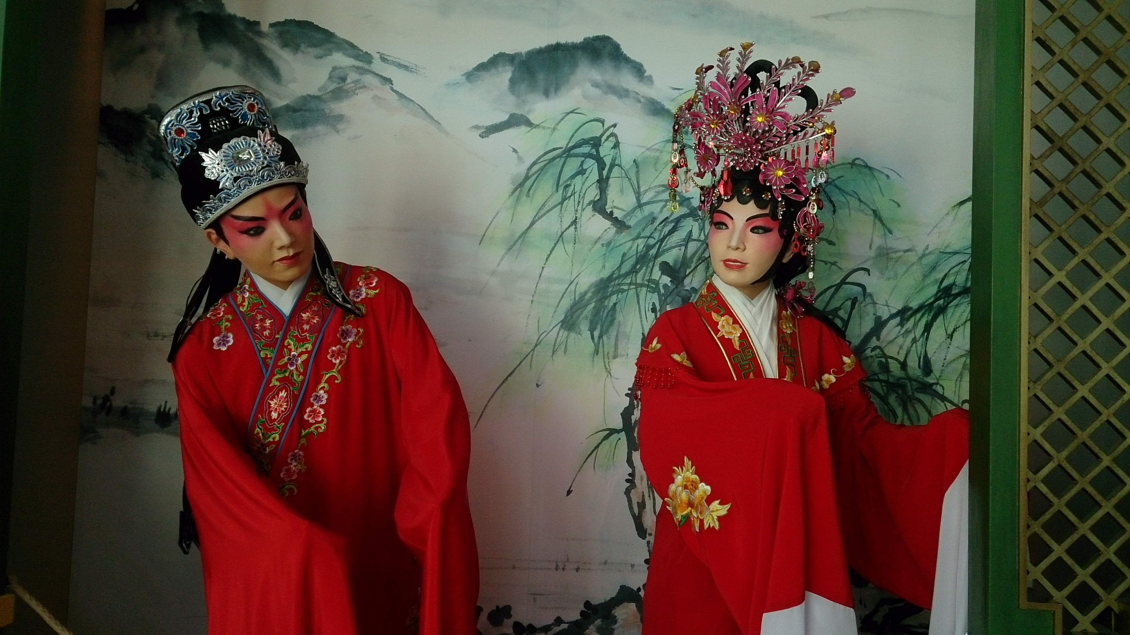 Mannequins dressed in traditional chinese opera costume. "Wayang" is a Malay/Javanese word meaning person who acts as a performer in drama or opera, the other meaning is a puppet employed in traditional arts, example Wayang Kulit (shadow puppet). The term Wayang for Chinese opera mainly appeared in Peranakan Chinese opera, such as in Java.